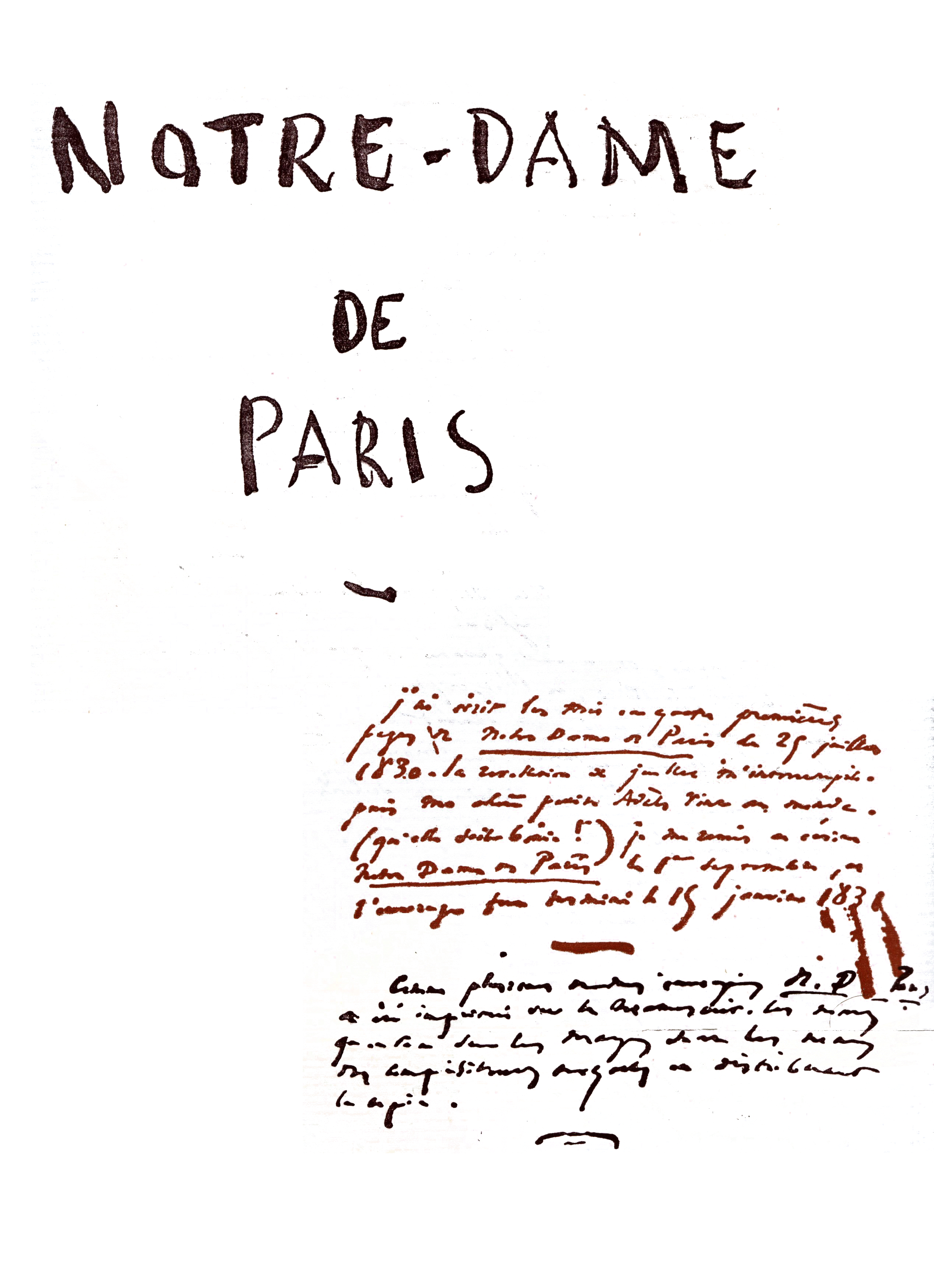 First page of the manuscript of Notre-Dame de Paris of Victor Hugo. Copy from Encyclopédie Autodidactique Quillet, Tome 3, 1960. Original in the Bibliothèque Nationale.